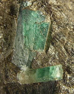 Beryl (Var.: Emerald) Locality: Habach valley, Hohe Tauern Mts, Salzburg, Austria (Locality at ) Size: 8.2 x 6.9 x 2.9 cm. These emerald crystals will not be winning any awards or cutting fine stones, but - they are from AUSTRIA, so the specimen is significant as a locality piece! They actually are rather gemmy, in fact, even if slightly encrusted with the matrix schist. The longest one is 2 cm, and there are two smaller ones on the edge of the specimen. An old specimen, and hard to obtain!